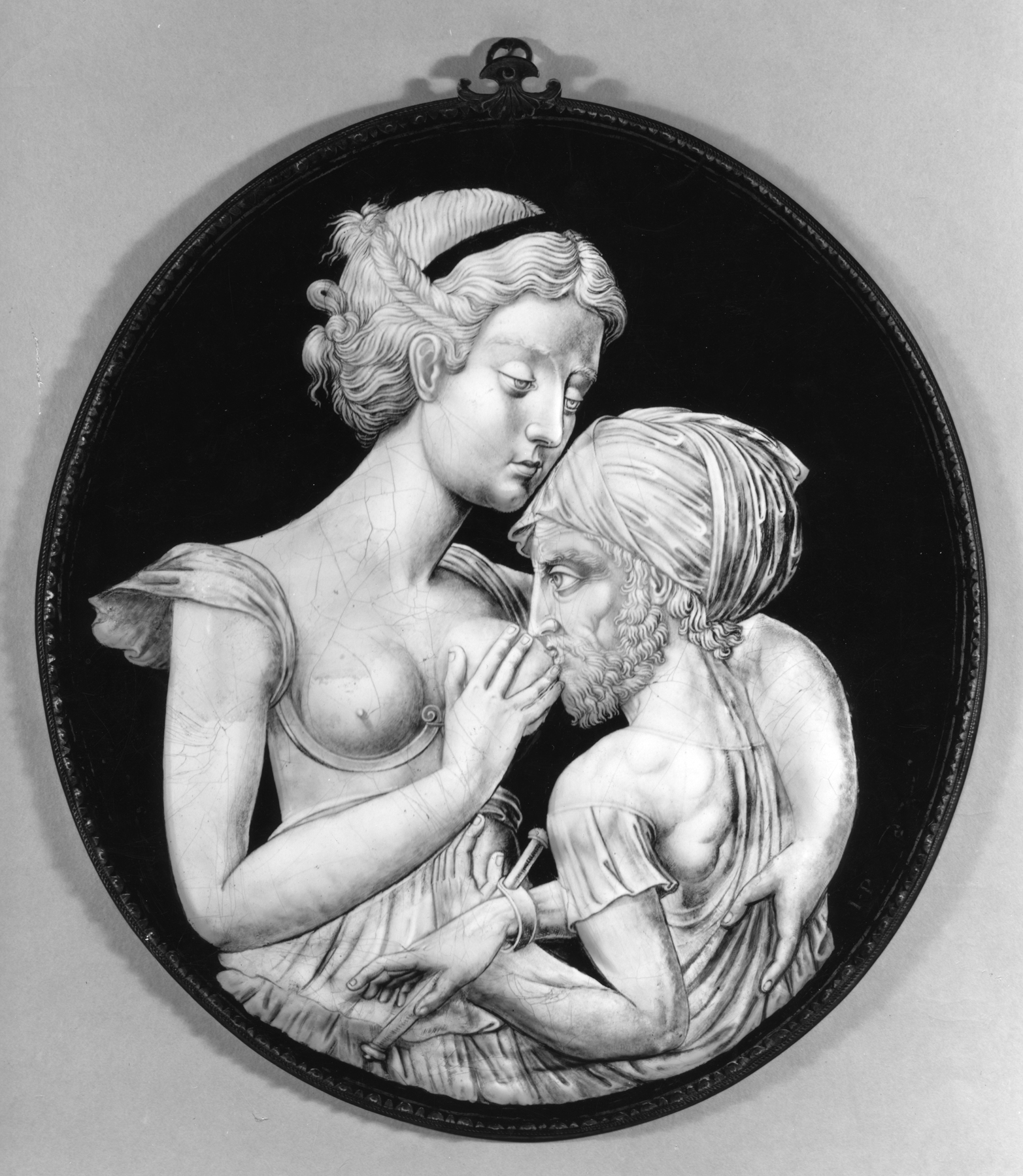 The subject, known since the last quarter of the 15th century as "Greek [or Roman] Charity," is based on a text of Valerius Maximus, "Factorum et Dictorum Memorabilium Libri IX," but refers to an earlier legend which appeared at Rome at the beginning of the 2nd century BC, in connection with the construction of a temple dedicated to Pietas (Charity). The protagonists in the story are Micon and Pero (characters known also under the names of Cimon and Pero; according to Sextus Pompeius Festus, the grammarian who, around AD 150, suggested a Greek origin for the theme, Cimon was an Athenian). Micon (or Cimon) who had been condemned to death, was visited daily in his cell by his daughter, Pero, who nursed him from her breast and so prevented him from perishing of starvation. Micon wears a turban and a short-sleeved tunic, and is represented with his hands fastened together by manacles on a cross-bar. Pero is dressed according to the Italian fashion of the early 16th century. The popularity of the subject was probably due to its erotic quality. The plaque is signed in gilt letters, I. P., followed by a gilt foliate scroll. Two gilt lines form a border.